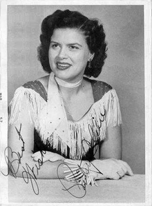 Publicity shot of Patsy Cline for Four Star Records